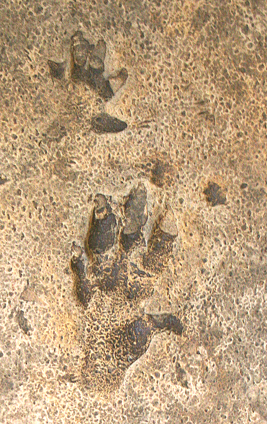 Chirotherium storetonense complete left set of manus (hand, above) and pes (foot, below), preserved as convex hyporelief in Helsby Sandstone, Storeton quarries at Bebington near Liverpool. All around there are smaller footprints representing Rhynchosauroides and possibly Rotodactylus.